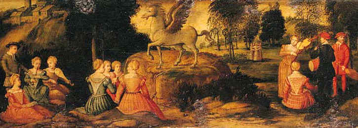 Ovid, Metamorphoses (V, 312: 36, 374: 430)